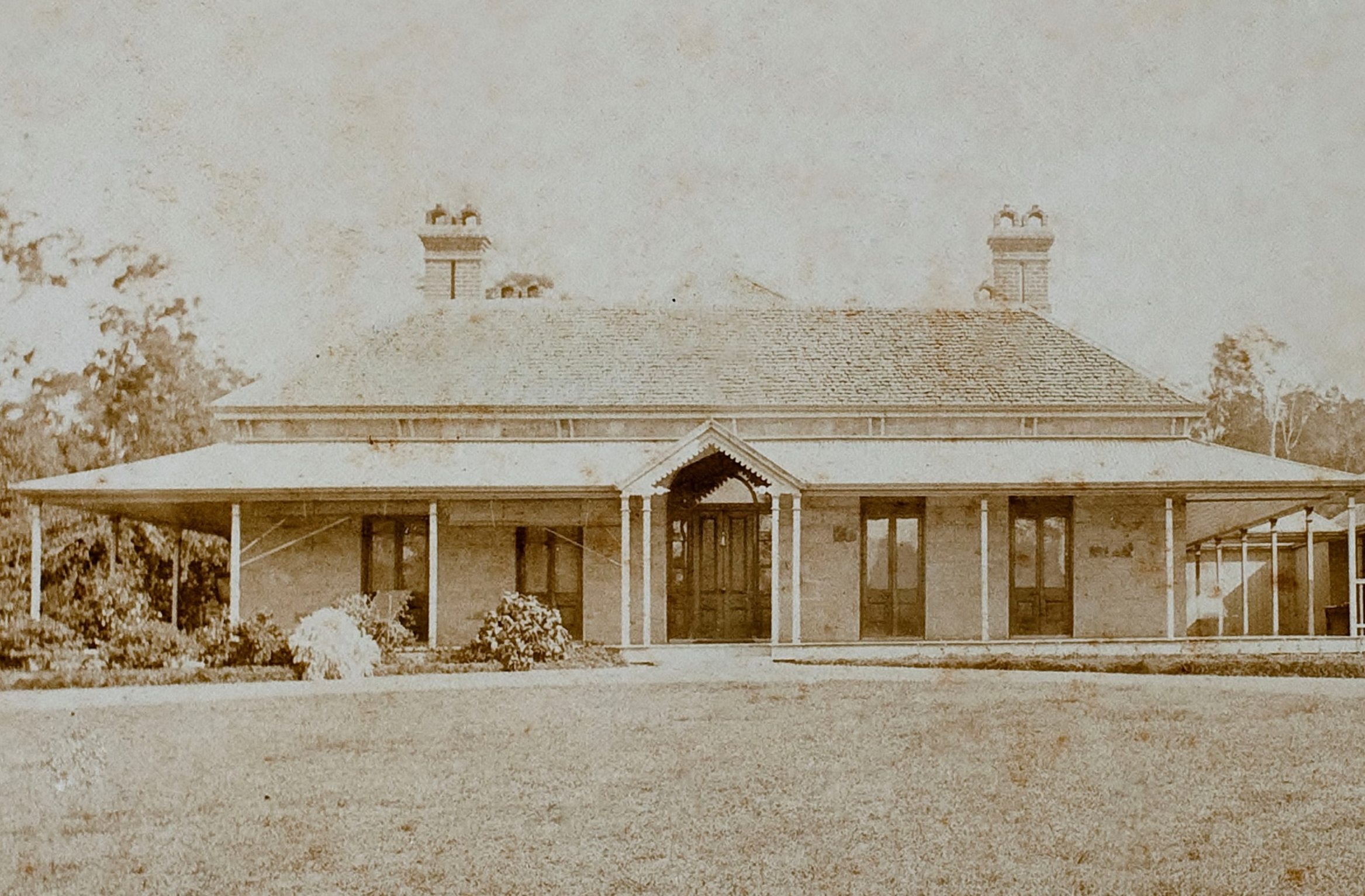 In 1864 Daniel Rowntree Somerset purchased the land and built his “U“ shaped house with granite external walls and shingle roof and it is he who named the Estate St John’s Wood. He resided there for four years, leaving after the death of his wife. The next occupier was George Rogers Harding, initially a young Barrister who became a prominent Judge. Harding then carried out major extensions to the residence, out-houses and yards. This is a photo of the Residence with the alterations in 1880s.